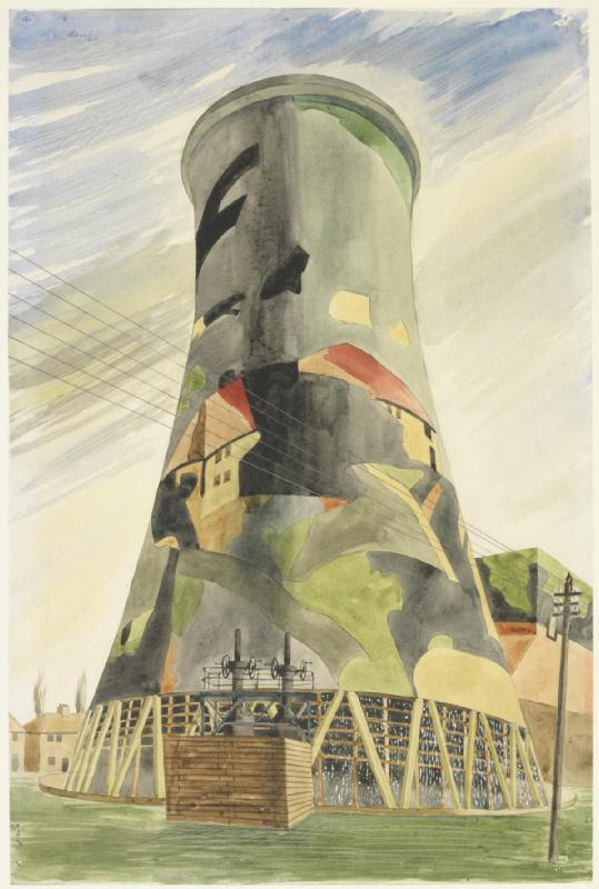 A power station cooling tower camouflaged with paintings of houses and a street scene, surrounded by barbed wire fencing.